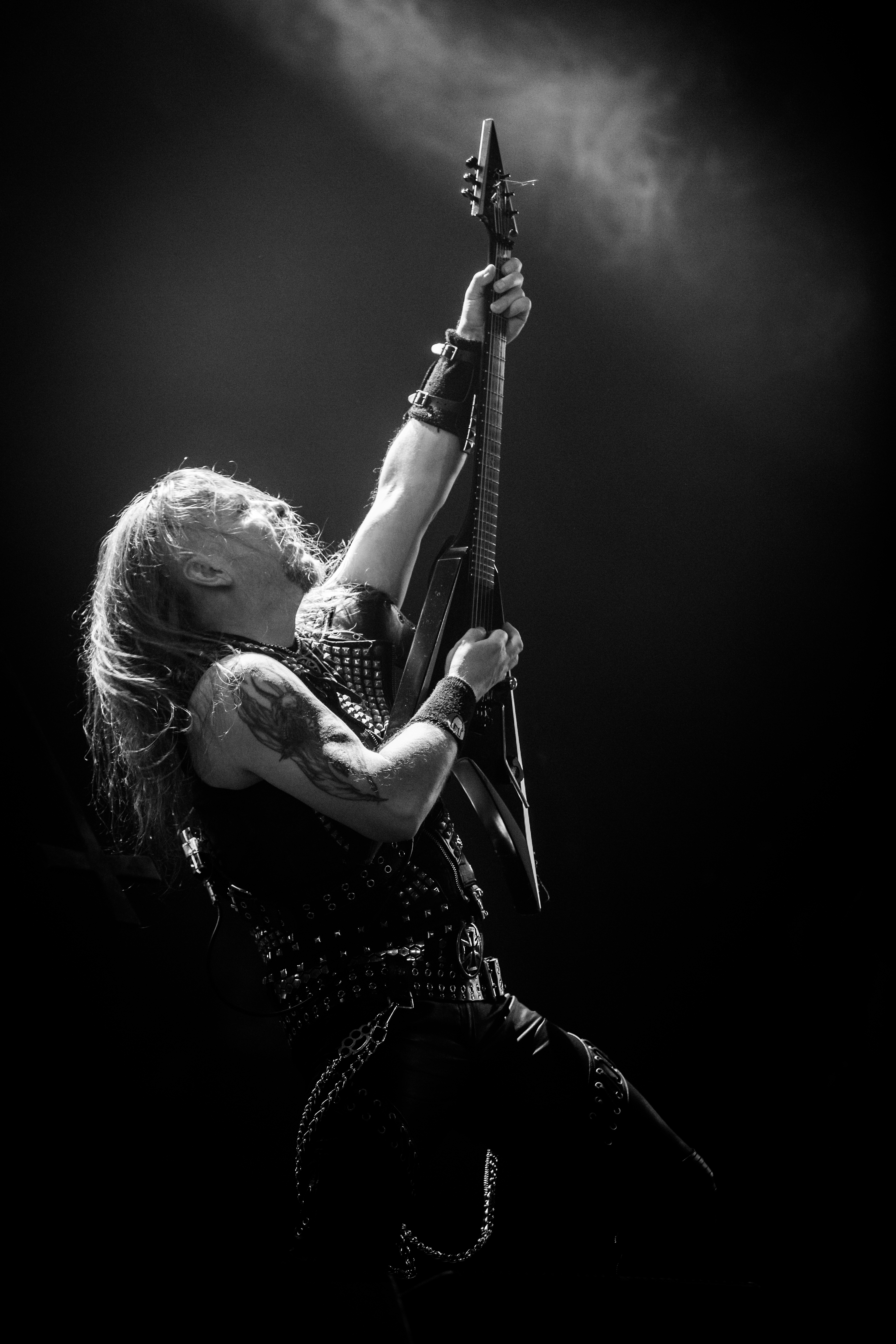 Vader - Wacken Open Air 2016